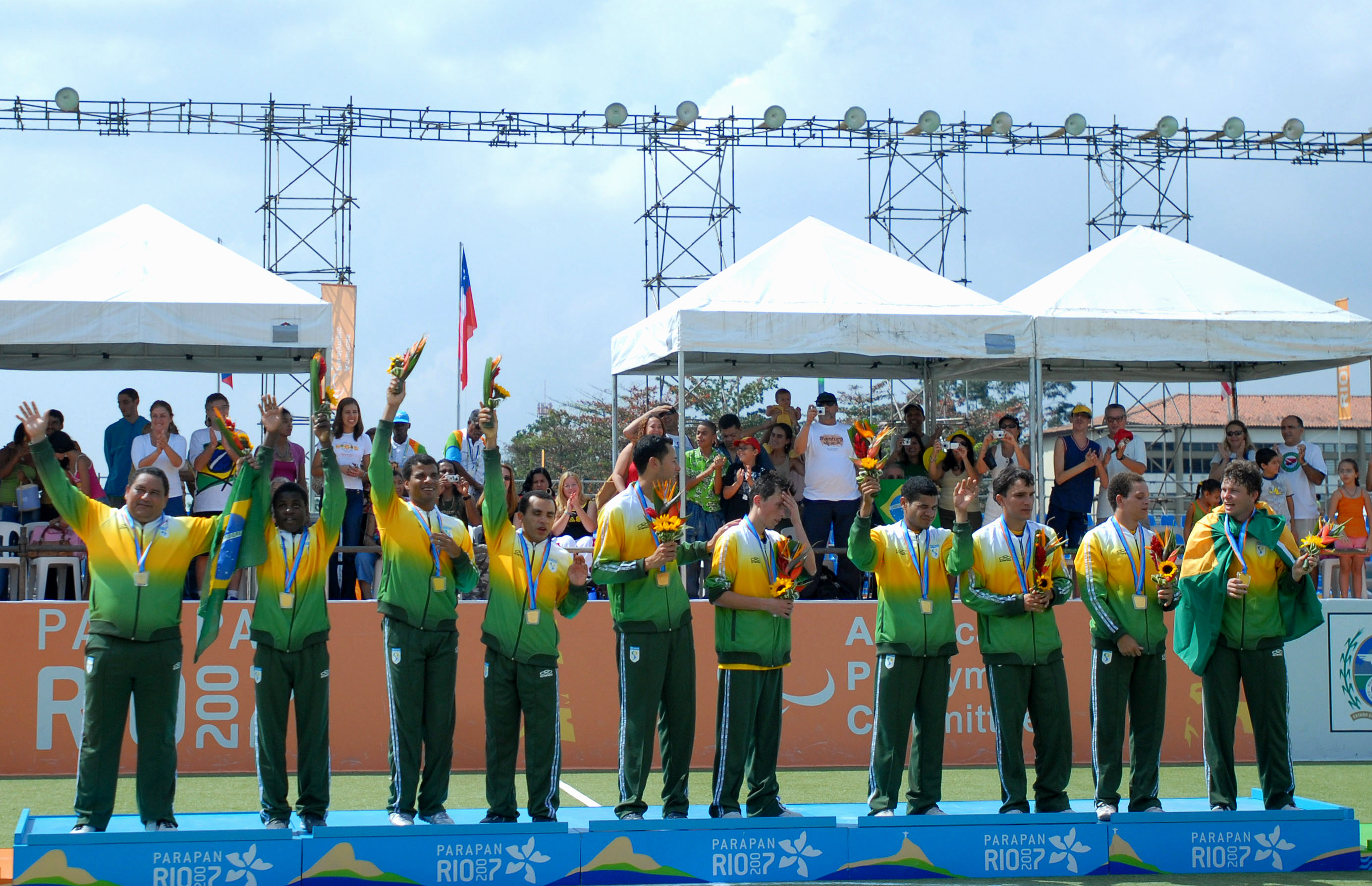 Brazil's national team of Football 5-a-side (for the blind) won gold at the 2007 Parapan American Games in Rio de Janeiro.